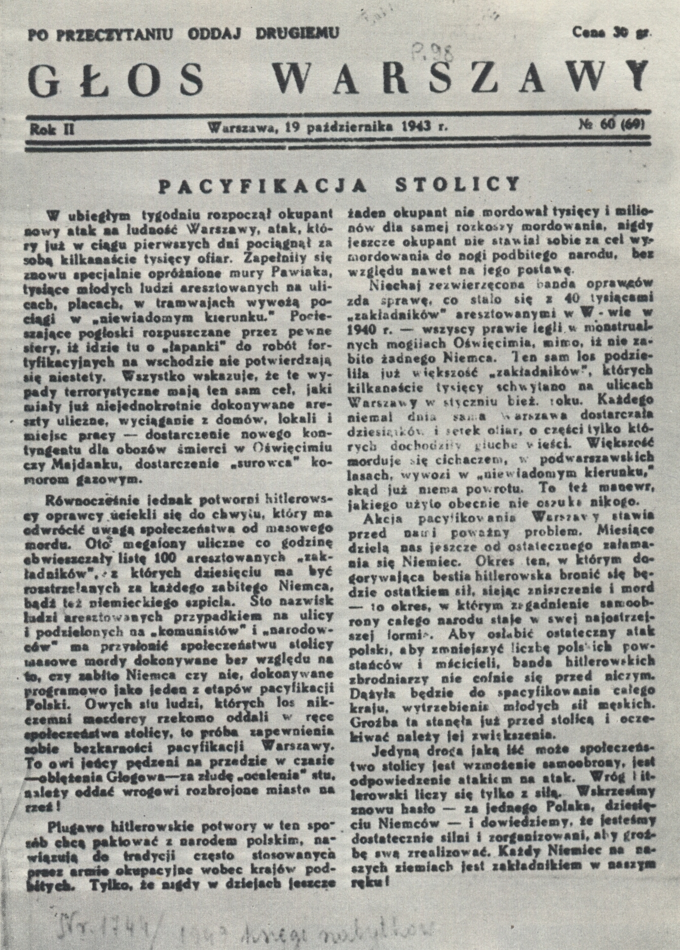 Front page of underground magazine “Warsaw Voice” issued by the communist “Polish Worker’s Party” (Polska Partia Robotnicza). Front page article concerns the new wave of terror in German-occupied Warsaw (October 1943).